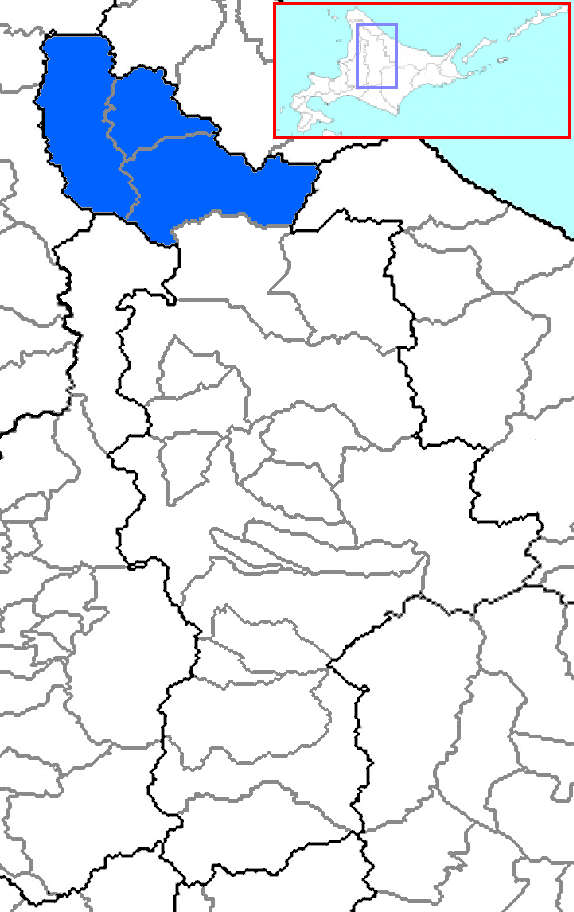 The location of Nakagawa (Teshio) District in Kamikawa Subprefecture, Hokkaido Prefecture, Japan.